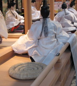 enza, Circular rugs woven straw or sedge.